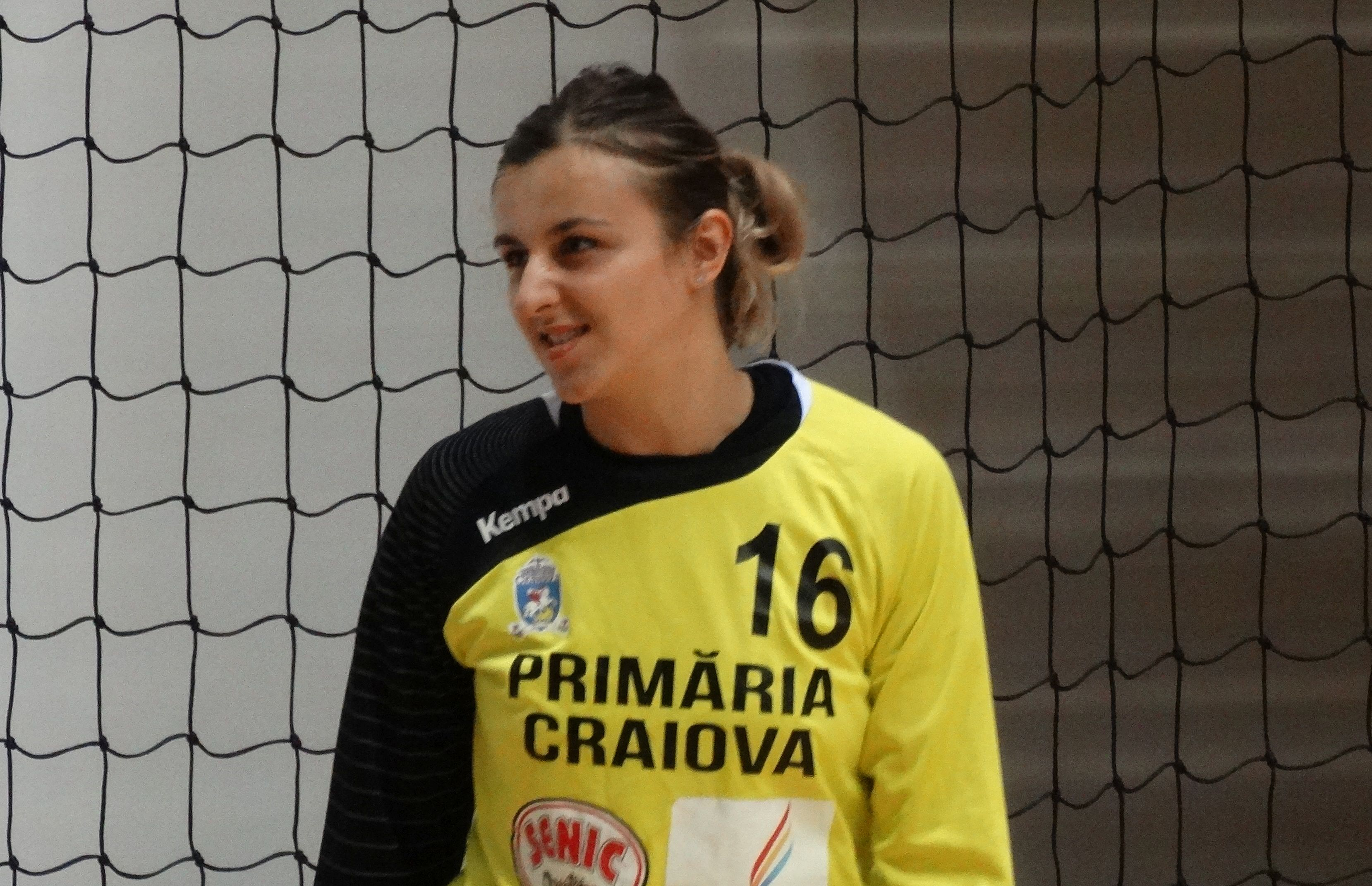 Yuliya Dumanska, goalkeeper of the Romanian women's handball team SCM Craiova.